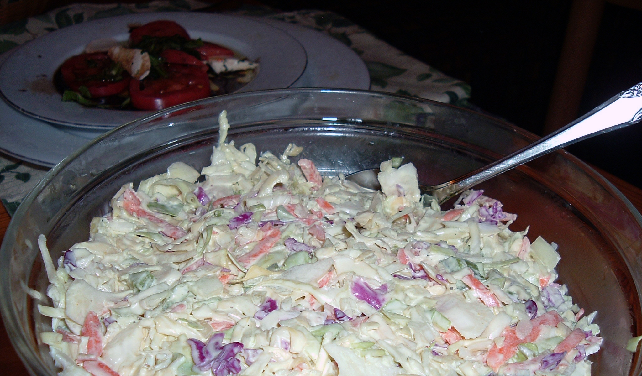 Cold slaw